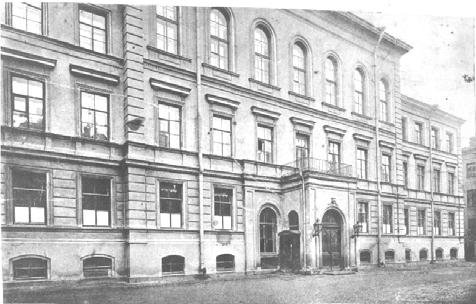 Photo of Annenshule gymnazum from 1912. Copied from history of school 239 Wikiolap 17:24, 31 August 2006 (UTC)